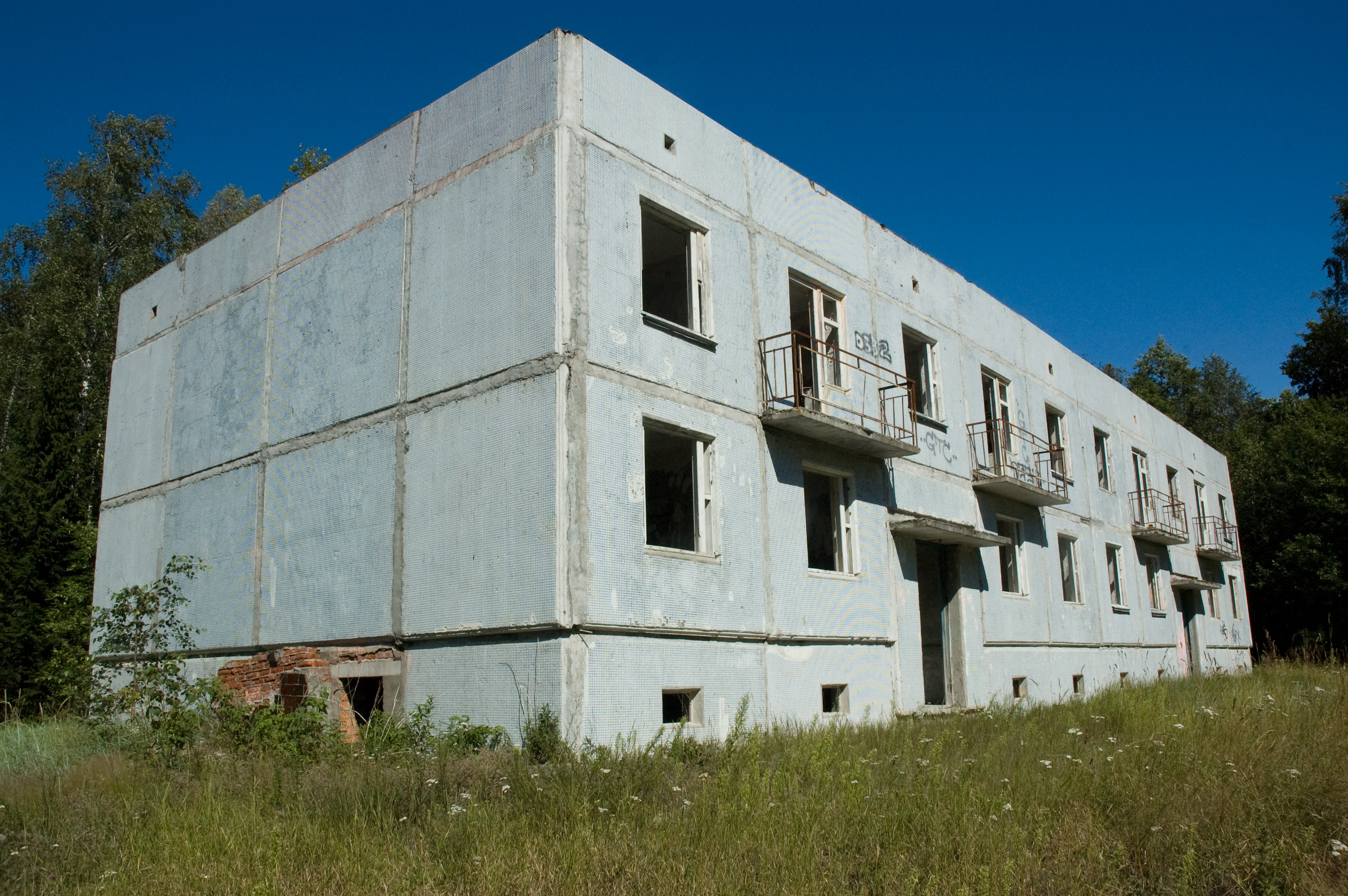 Ruins of russian military buildings in Pärispea peninsula, Lahemaa National park, Estonia